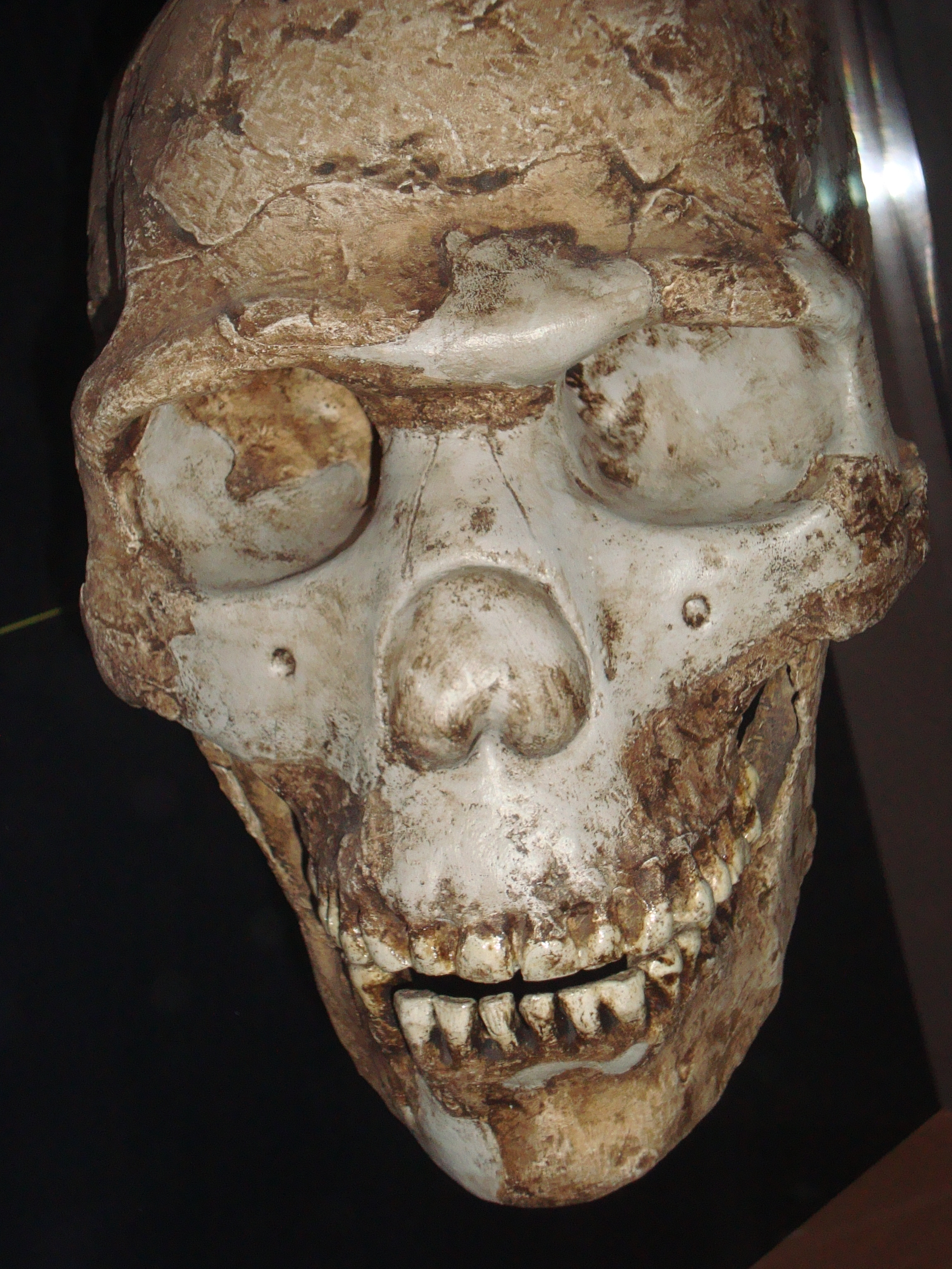 Skhul V